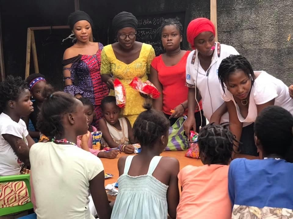 Makémé et des orphelins de l'horphelina hakuna matata (Conakry)